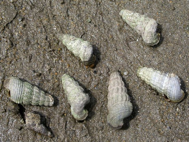 Cerithidea rhizophorarum in Saikai,Nagasaki